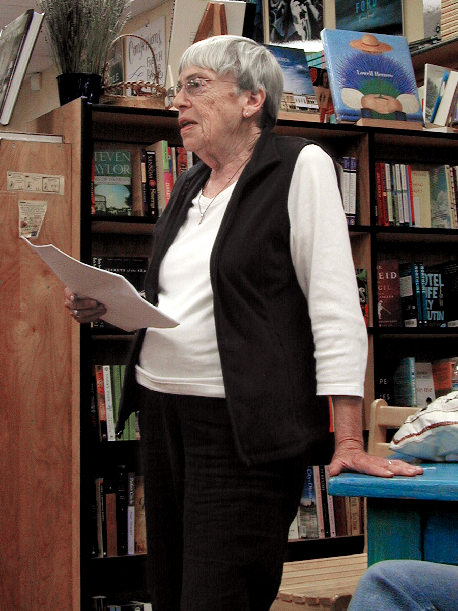 Ursula K. Le Guin reading from Lavinia at Rakestraw Books, Danville, California, on June 23, 2008.